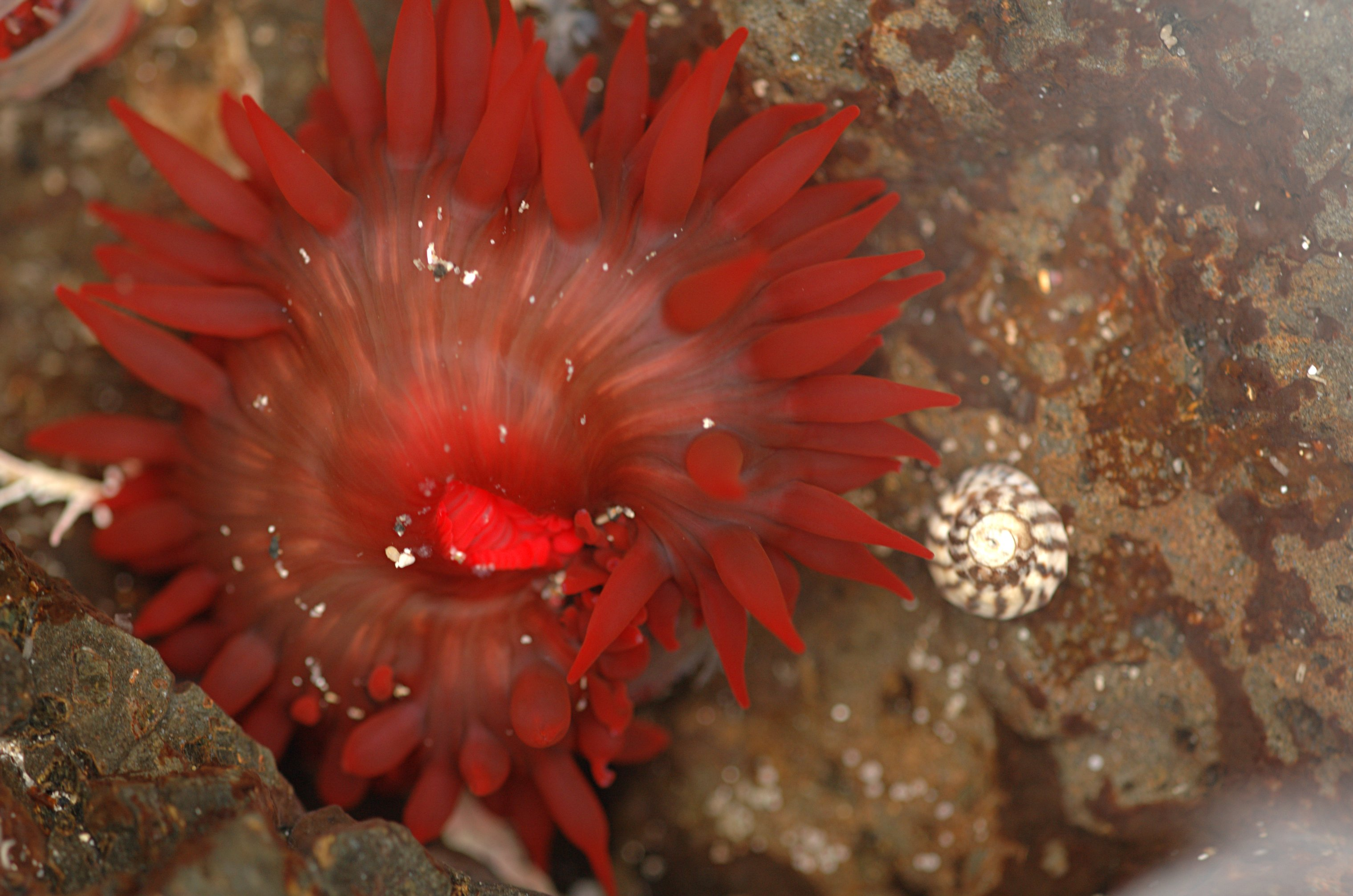 Sea Anemone, probably Actinia tenebrosa, in a tidal pool at Flinders Blowhole, Victoria, Australia.